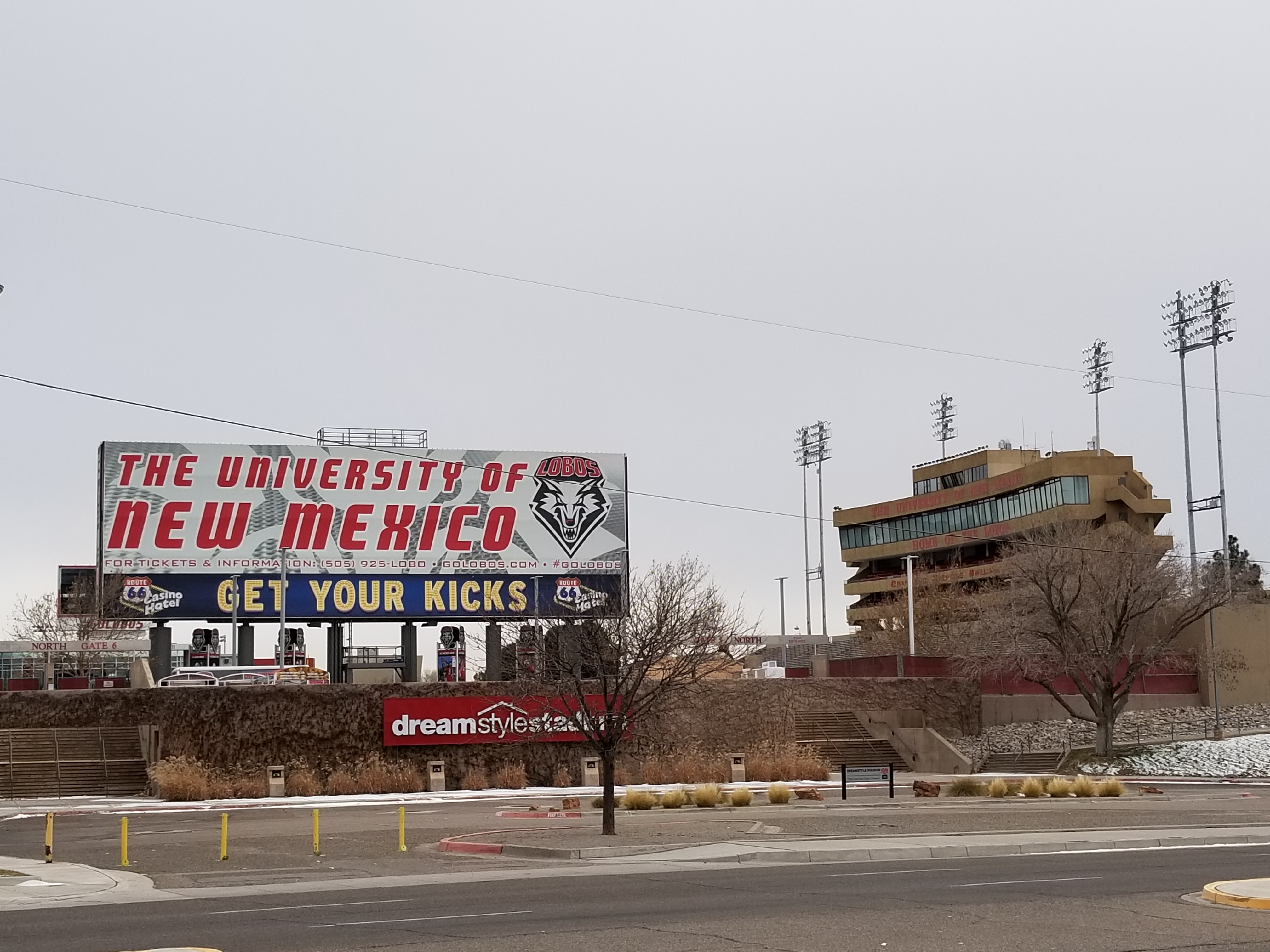 Dreamstyle Stadium Exterior